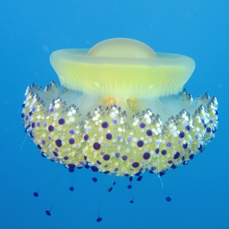 Cassiopea Jellyfish (Cotylorhiza tuberculata) Mar Jonio, Italy